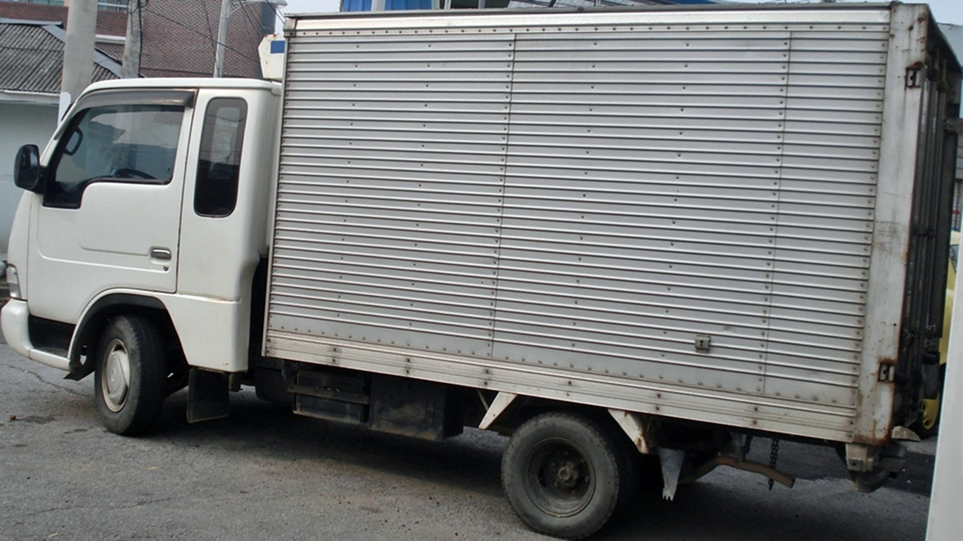 Samsung SV110